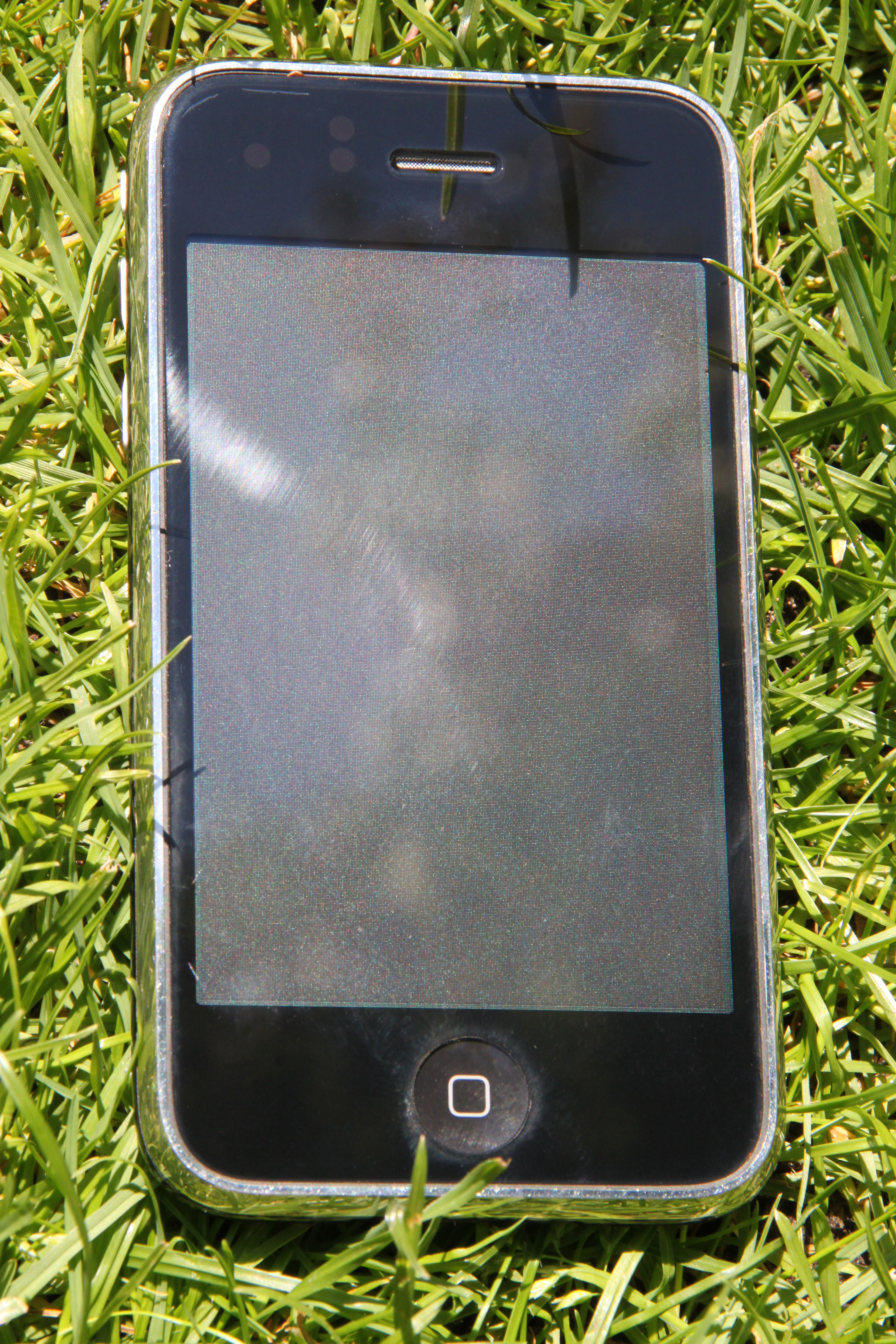 An Iphone 3GS.